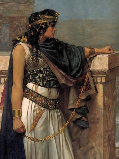 Queen Zenobia's Last Look Upon Palmyra.